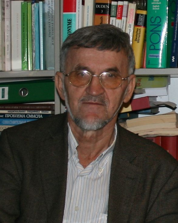 Branko Tošović